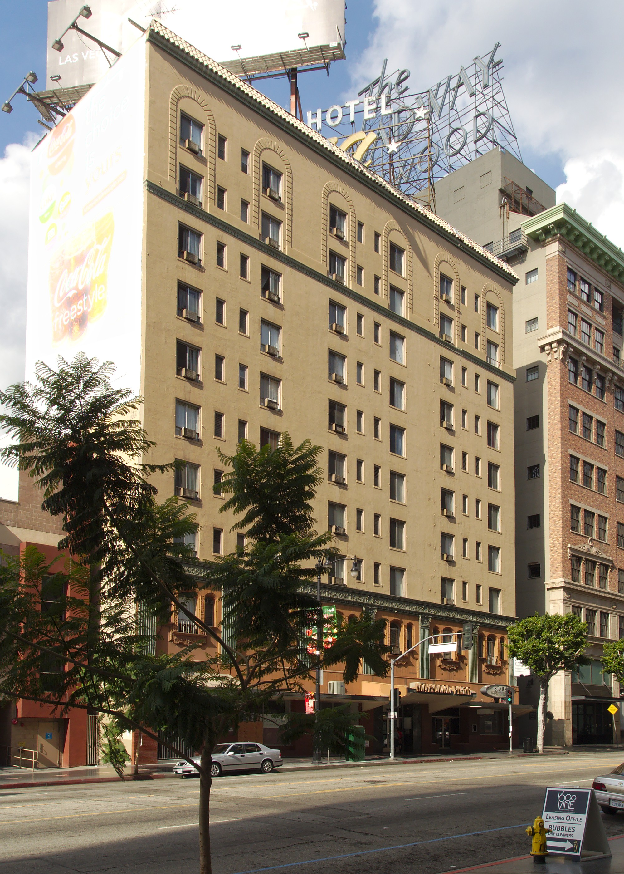 The Hollywood Plaza Hotel viewed from the southeast across Vine Street.